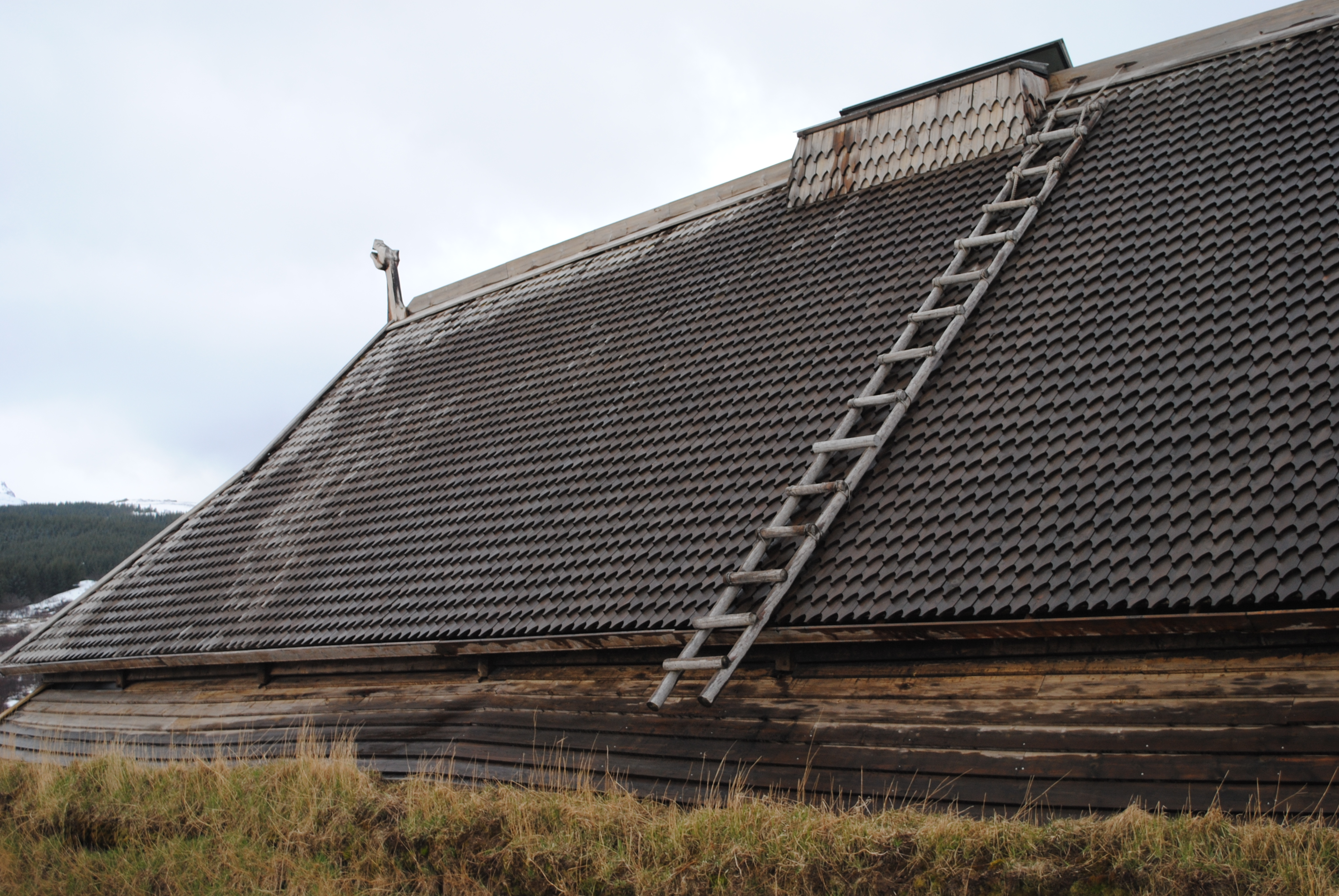 The Lofotr Viking Museum in Lofoten, Norway.